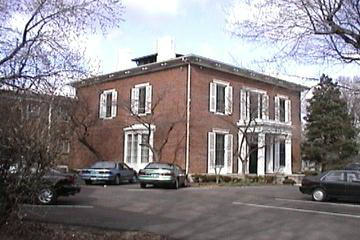 Ferncliff -- King Mansion Side 5-20-07